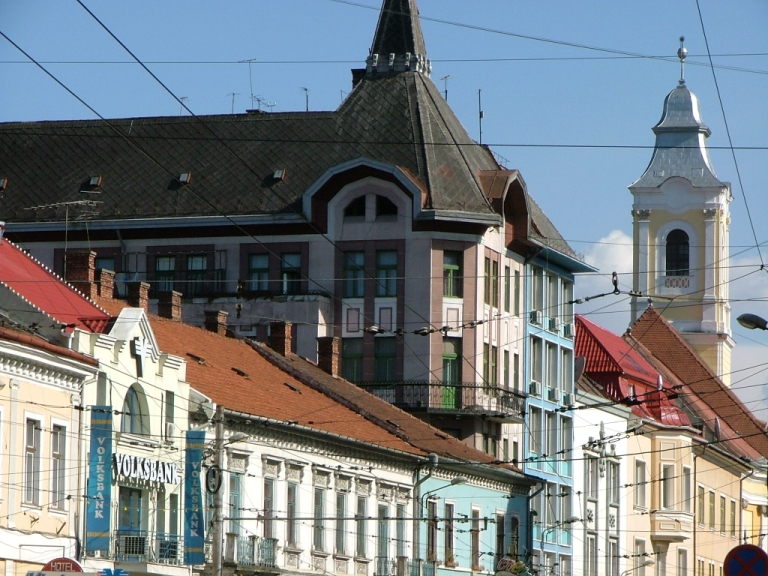 Cluj-Napoca - View from King Ferdinand Bvd.